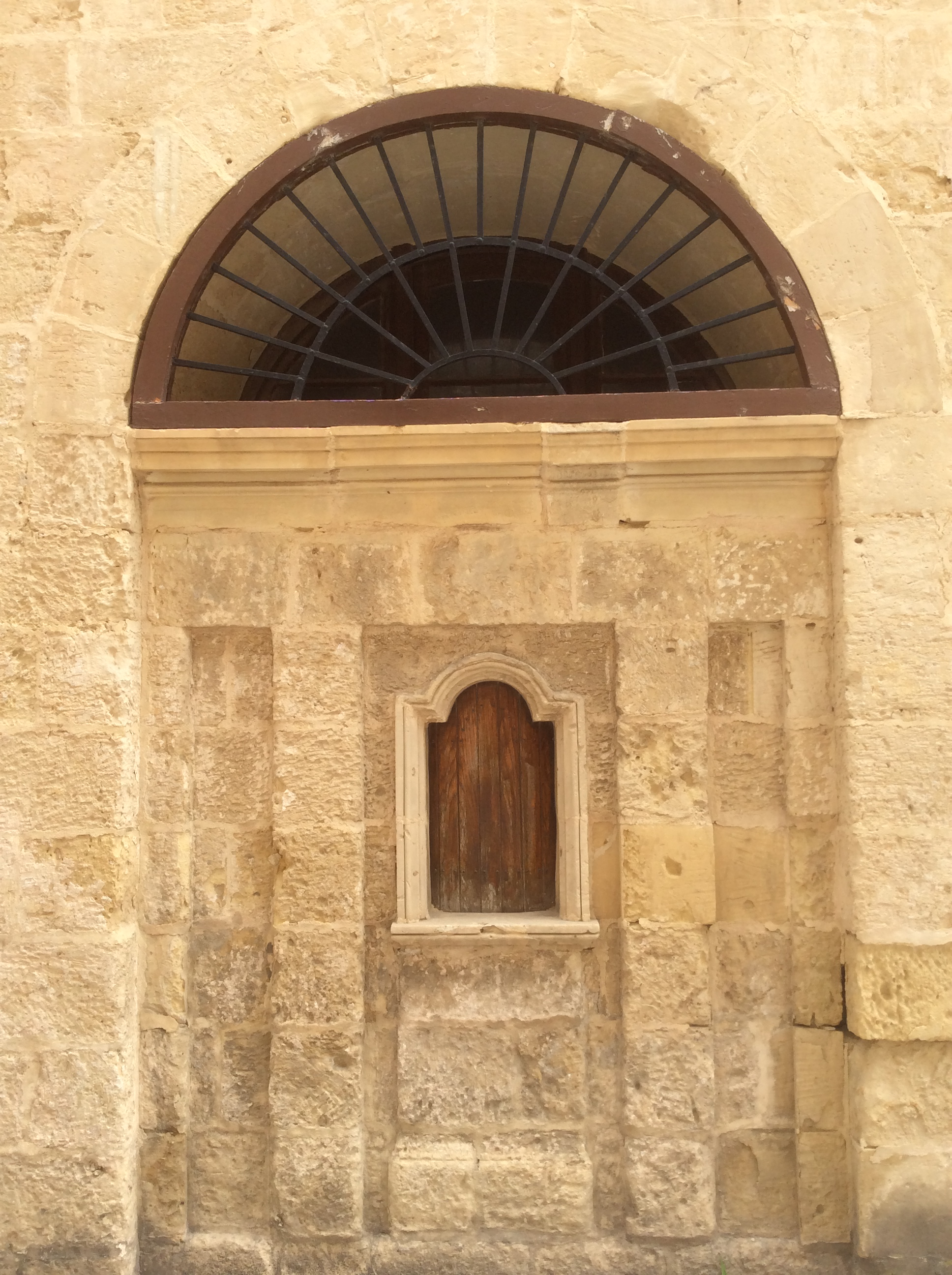 Rabat